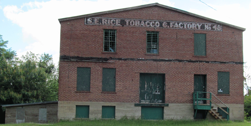 The Rice Tobacco Factory at 112 North Cherry Street in Greenville, Kentucky was constructed in 1922. It is listed on the National Register of Historic Places.